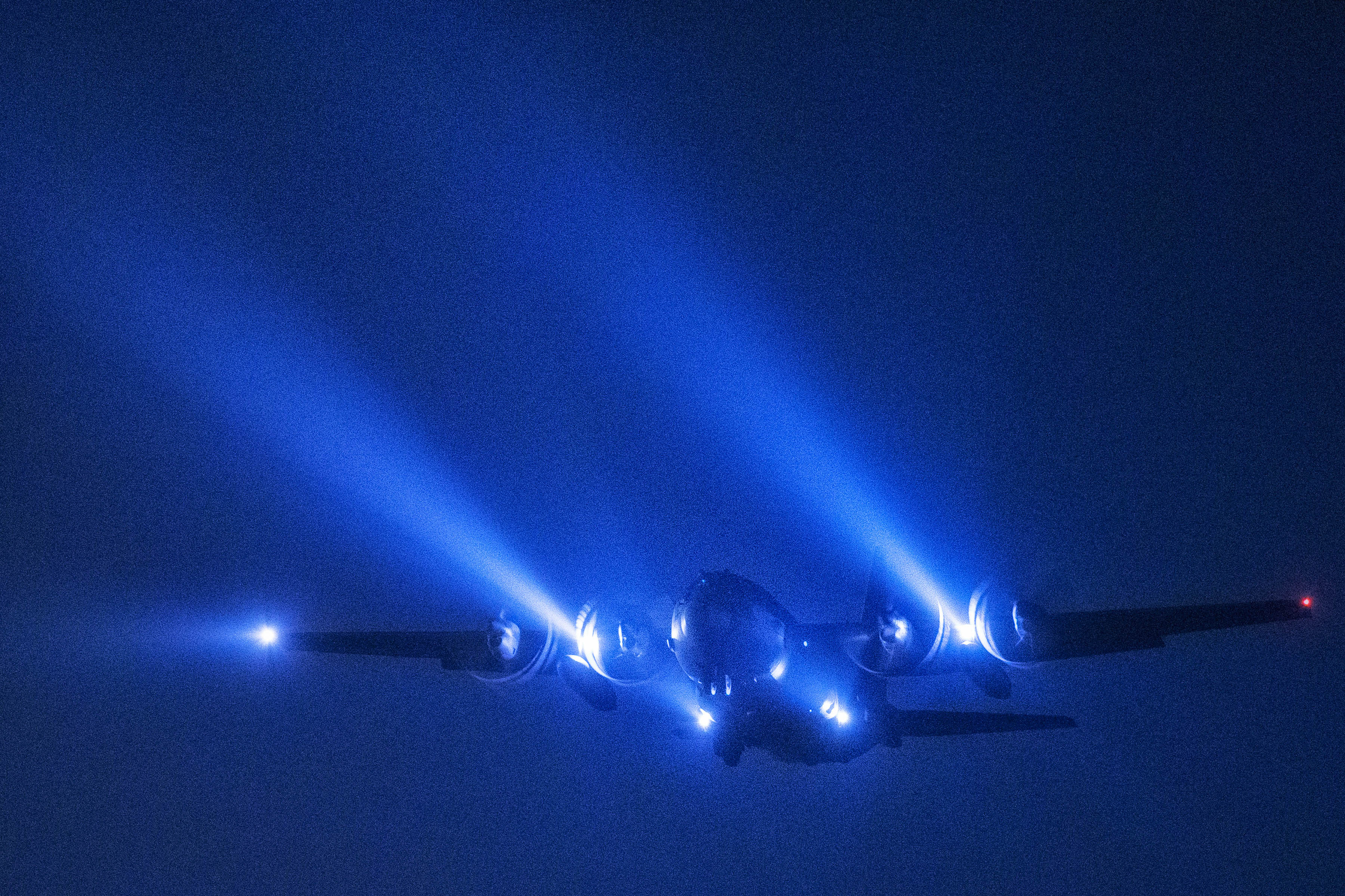 A C-130 Hercules from the 36th Airlift Squadron conducts a night flight mission over Yokota Air Base, Japan, May 11, 2016. The C-130 provides tactical airlift worldwide. Its flexible design allows it to operate in an austere environment. (U.S. Air Force photo/Yasuo Osakabe)